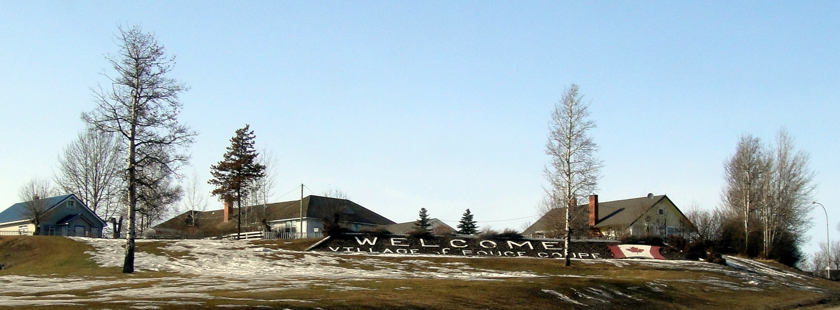 Welcome sign in Pouce Coupe, British Columbia, Canada